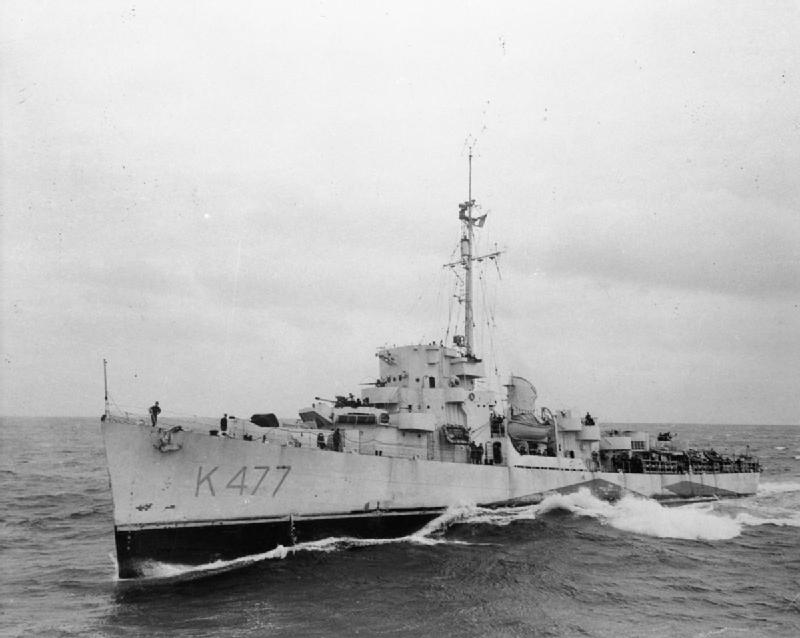 Photograph of Captain class frigate HMS Grindall.